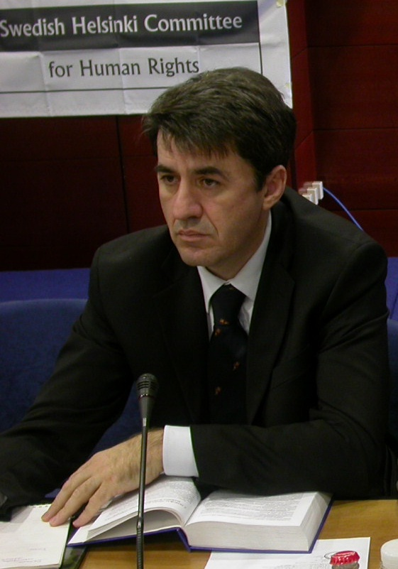 Žarko Obradović